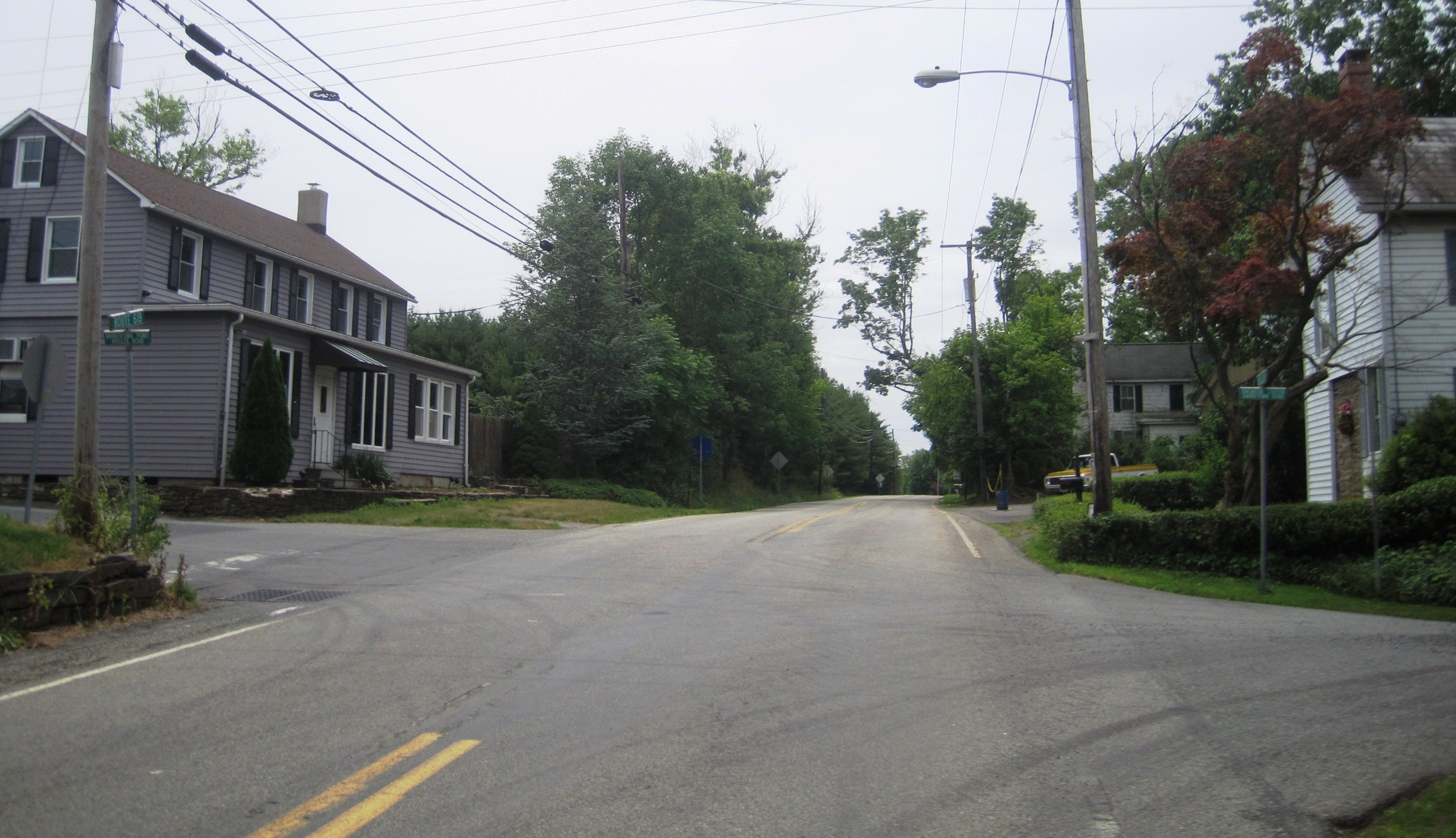 Photo of Barbertown, New Jersey, an unincorporated community within Kingwood Township. Photo taken on southbound County Route 519 at Kingwood Station-Barbertown Road (right) and Barbertown-Point Breeze Road (left).